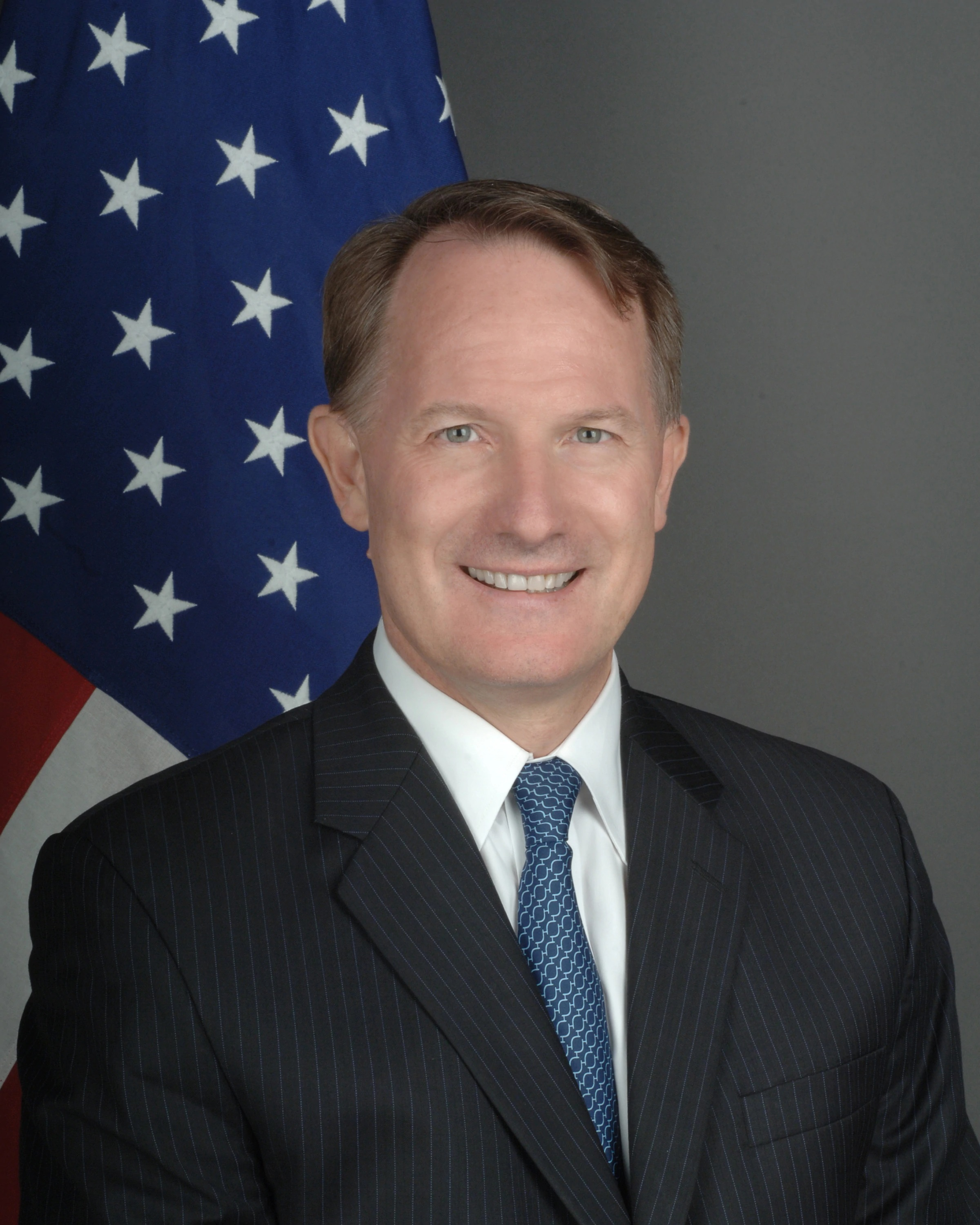 Daniel Bennett Smith, U.S. diplomat. As of 2010, U.S. ambassador to Greece.